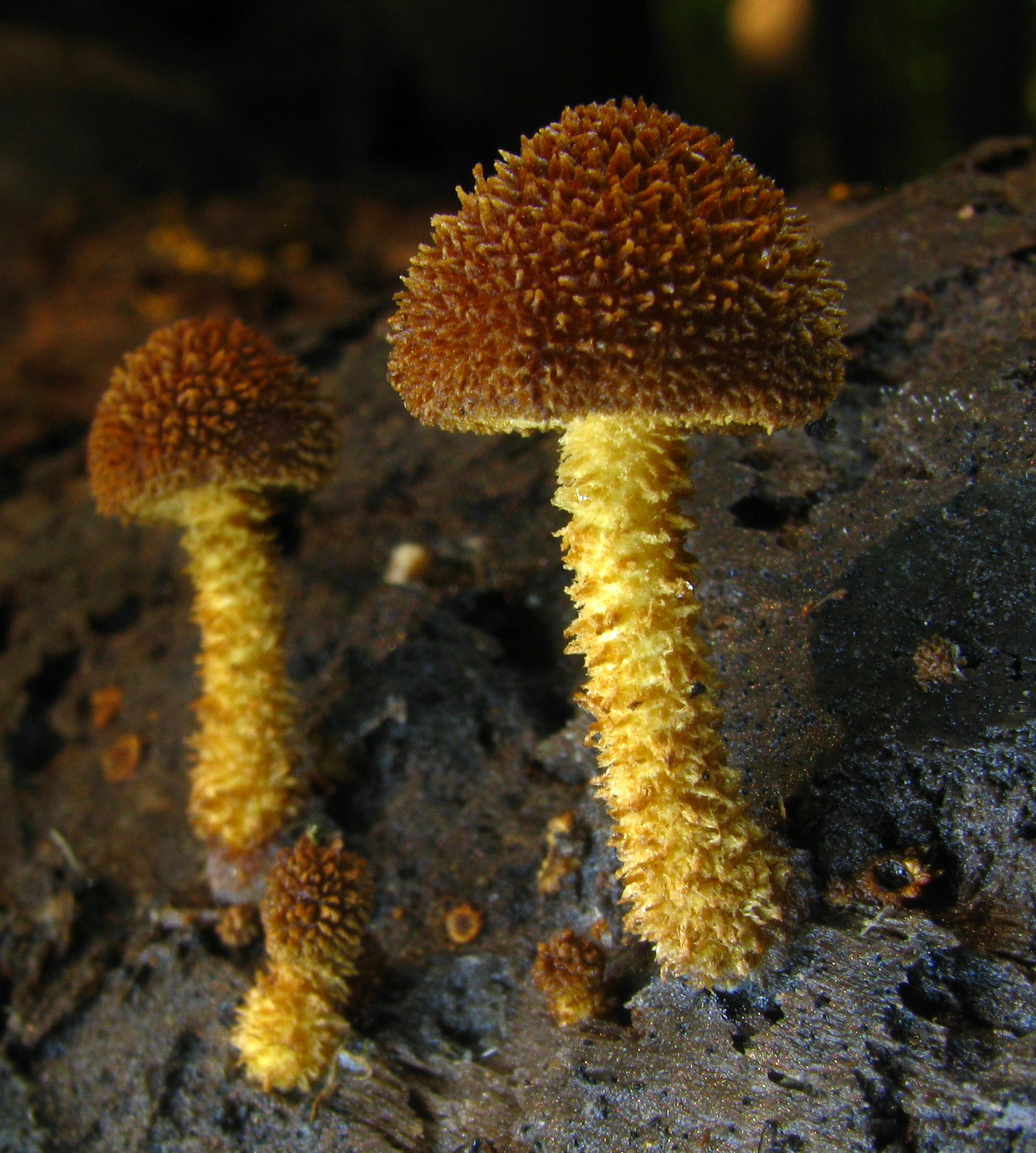 Flammulaster muricatus (Fr.) Watling Image location: Hocking State Forest, Hocking Co., Ohio, USA Used references: Same as here maybe: For more information about this, see the observation page at Mushroom Observer.